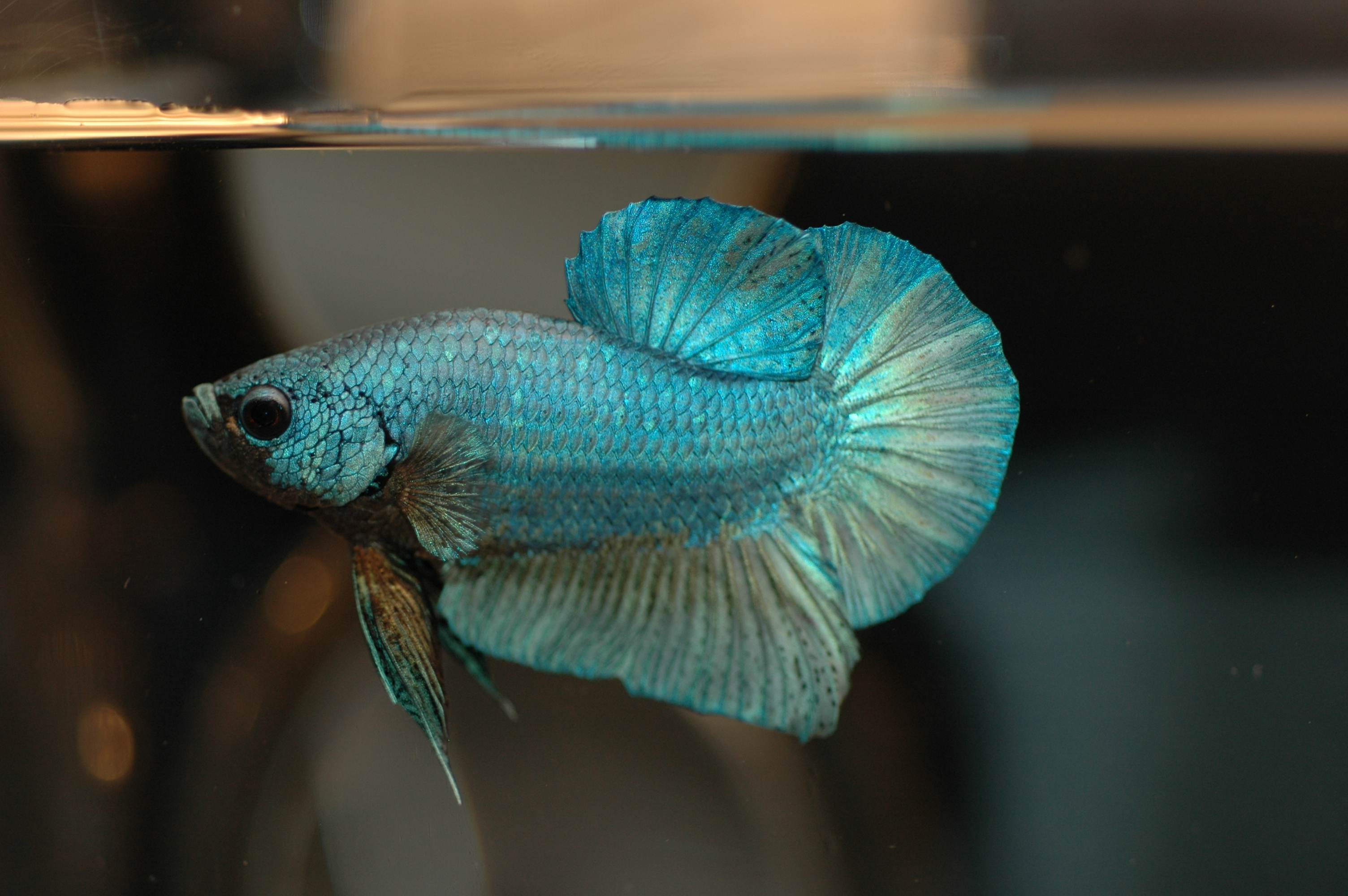 Siamese fighting fish Betta splendens, halfmoon plakat, male, in an aquarium.